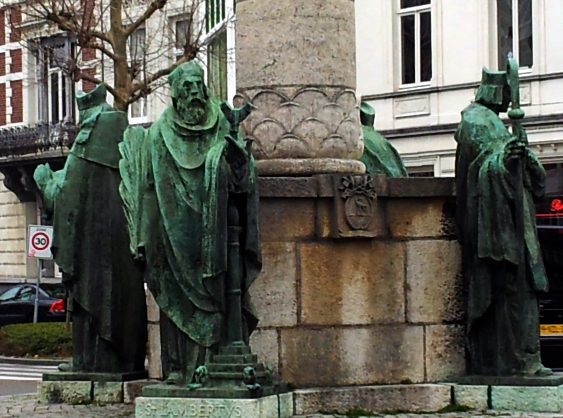 Maastricht, the Netherlands. Detail of the monument of four early medieval Holy Bishops of Maastricht at the crossing of Stationsstraat and Wilhelminasingel in Wyck. Depicted: Saint Lambert (left) and Saint Servatius (right).